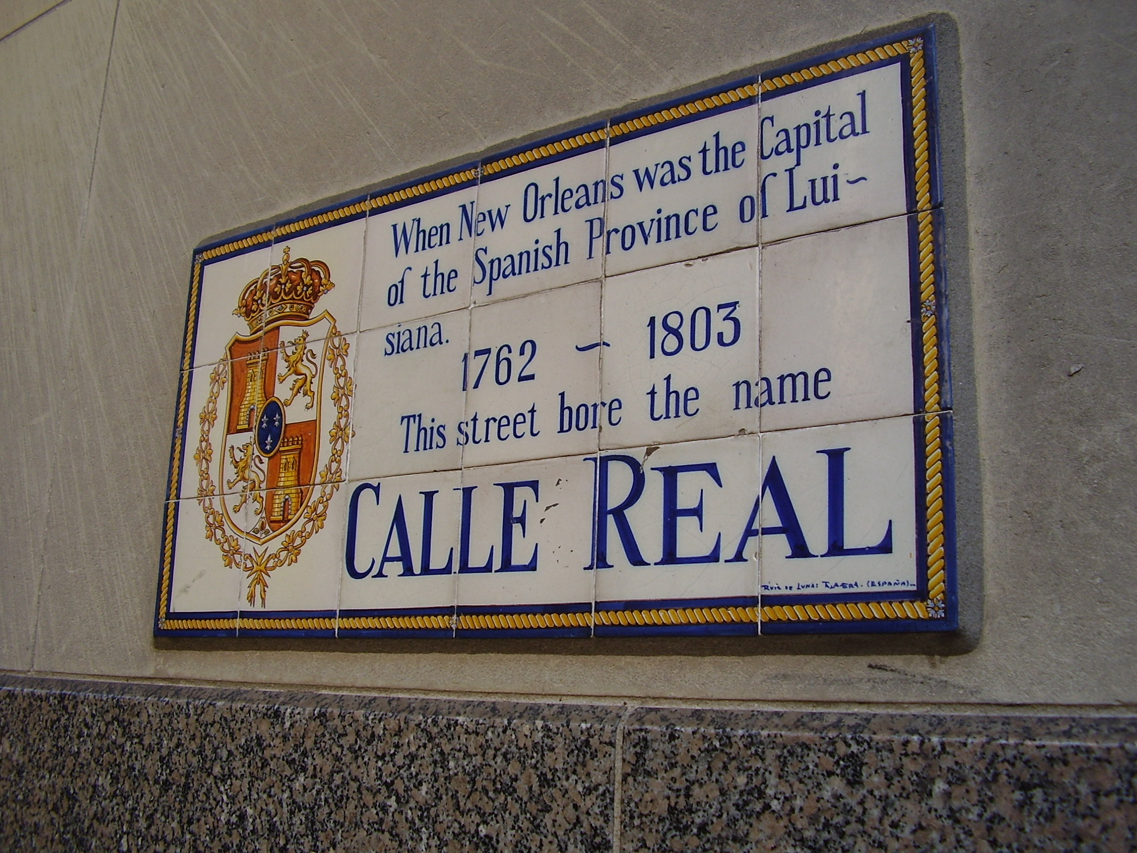 This sign states that Royal Street was known as "Calle Real" during the era of Spanish rule